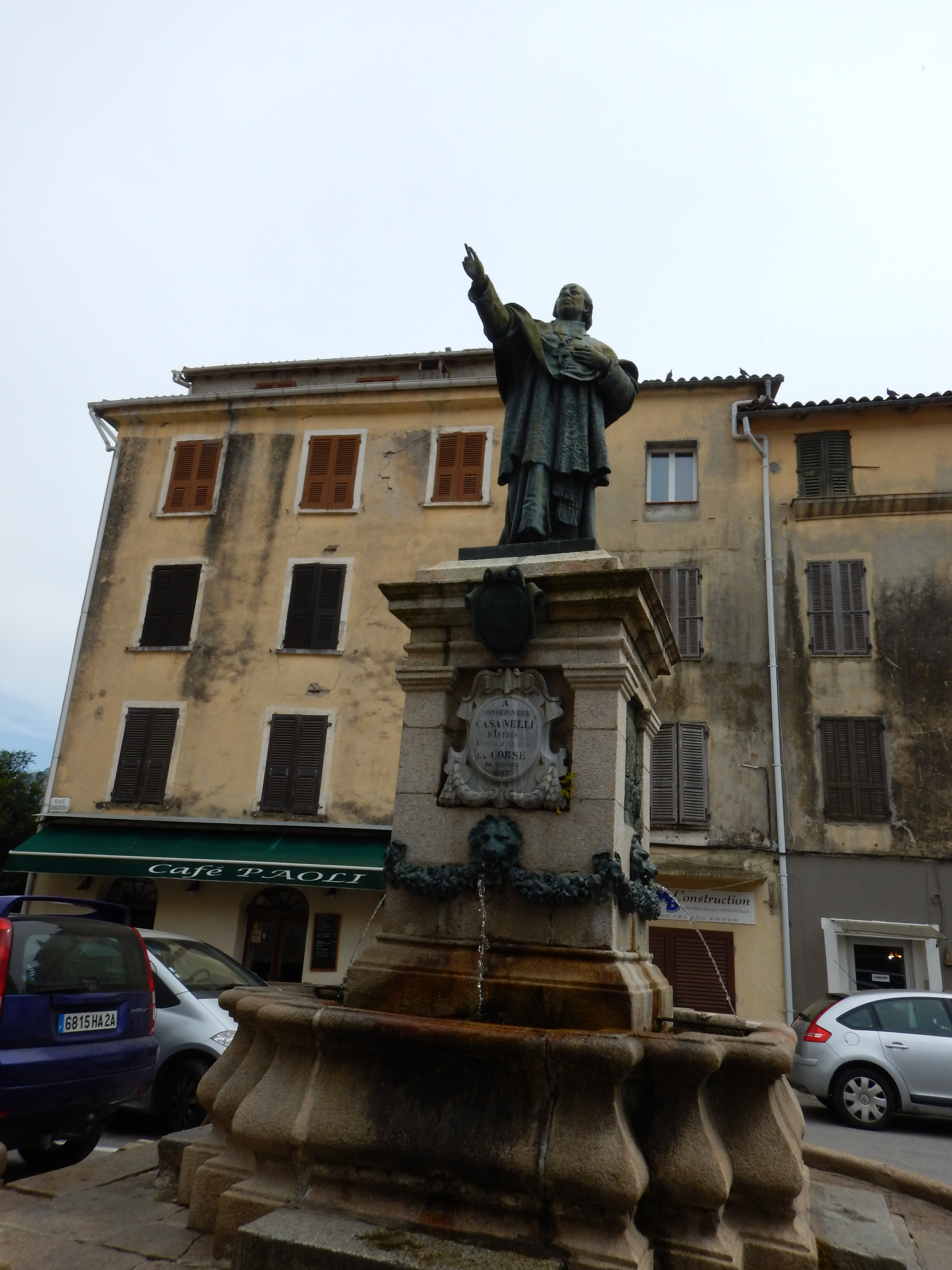 Statue of Bishop Saverio Casanelli D'Istria at Vico